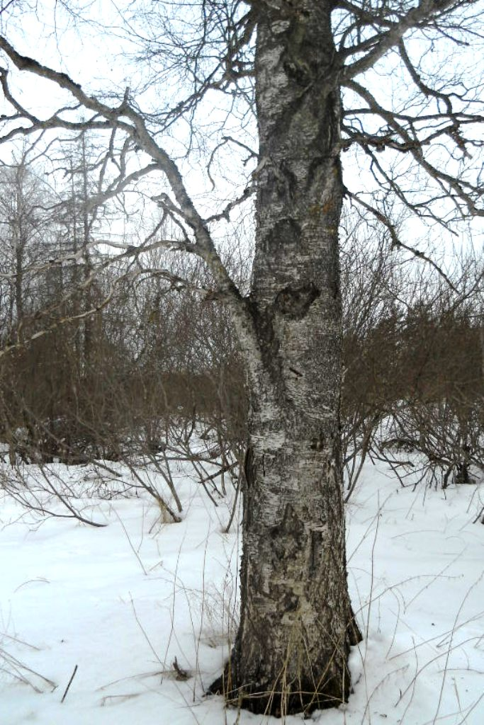 «Stepson» - stunted the second node of the tree. Outside view.